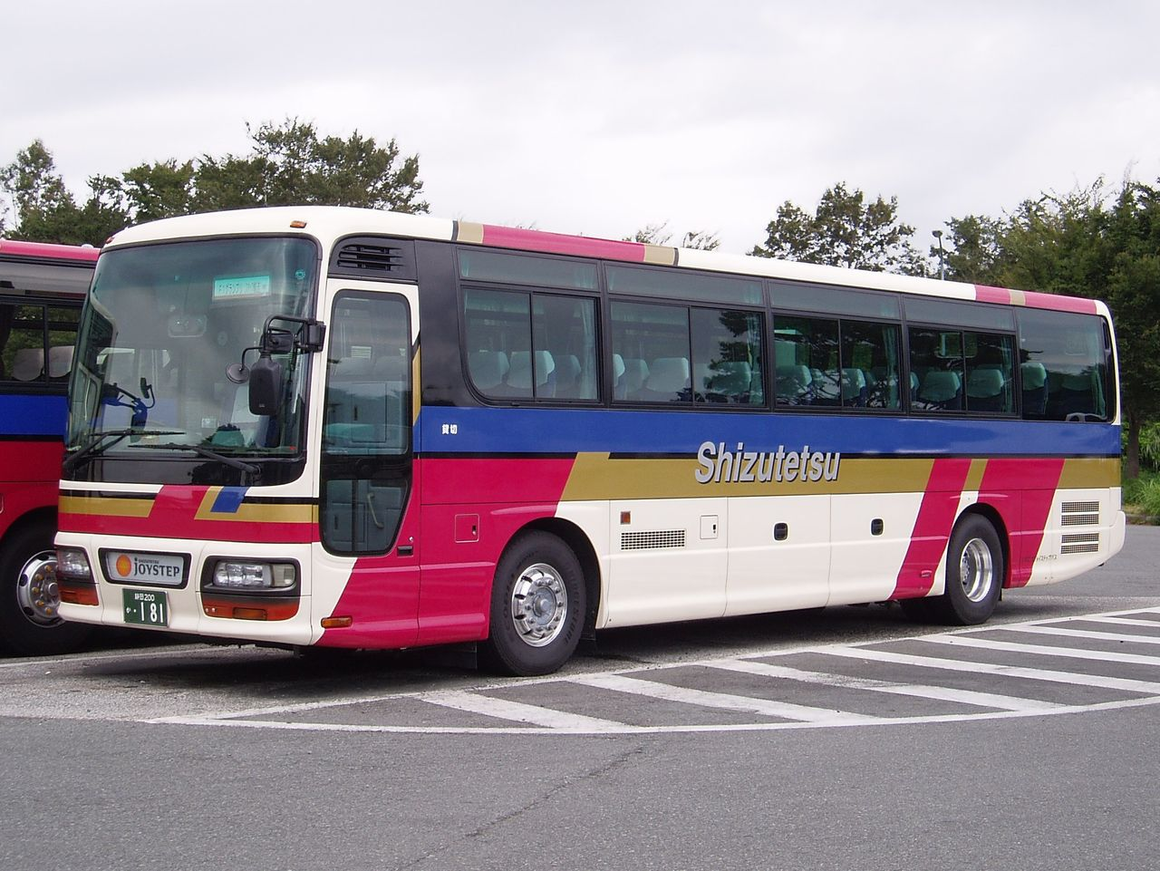 Shizutetsu JoyStep Bus 181 Isuzu GALA KL-LV774R 2007.09.27 足柄サービスエリアにて Photo by Cassiopeia_sweet.